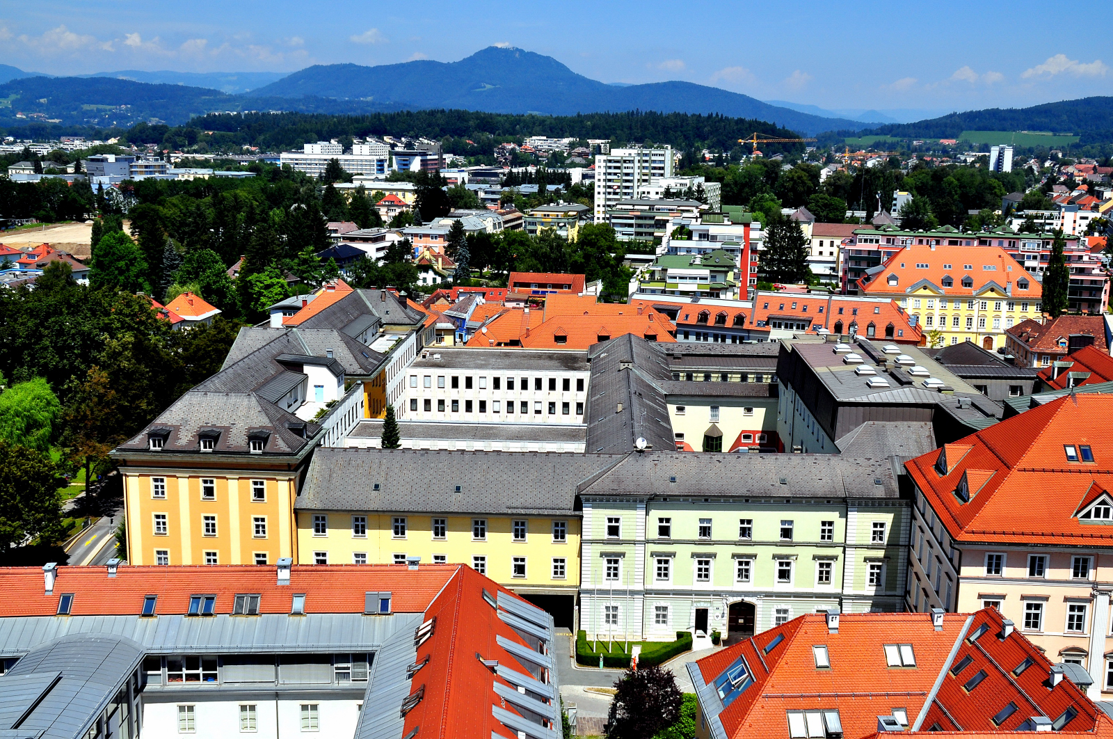 Court of justice and state prison on the Josef-W.-Dobernig-Street #2 in the Inner City of Carinthian`s capital Klagenfurt on the Lake Woerth, Carinthia, Austria